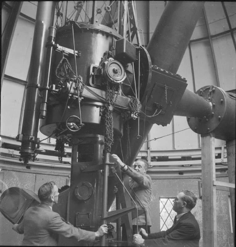 The Royal Observatory- Everyday Life at the Royal Observatory, Greenwich, London, England, UK, 1945 Maintenance engineers adjust a spectroscope at the Royal Observatory, Greenwich. The telescope was presented to the Observatory in April 1934 by Mr Johnston Yapp to commemorate the services of the Astronomer Royal, Sir Frank Dyson, who retired in 1933. It was made by Sir Howard Grubb of Parsons and Co., and has been largely dismantled as a wartime measure.